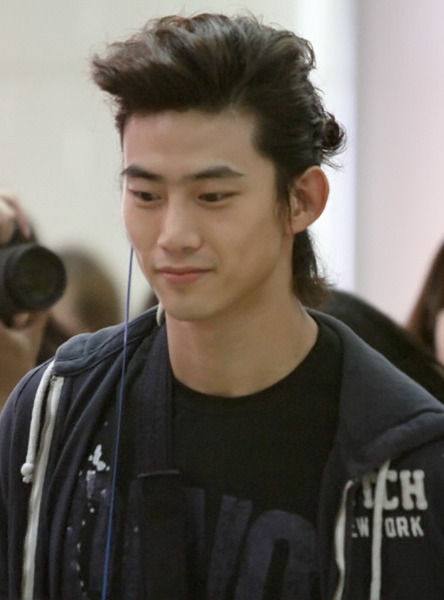 Taecyeon in June 2012